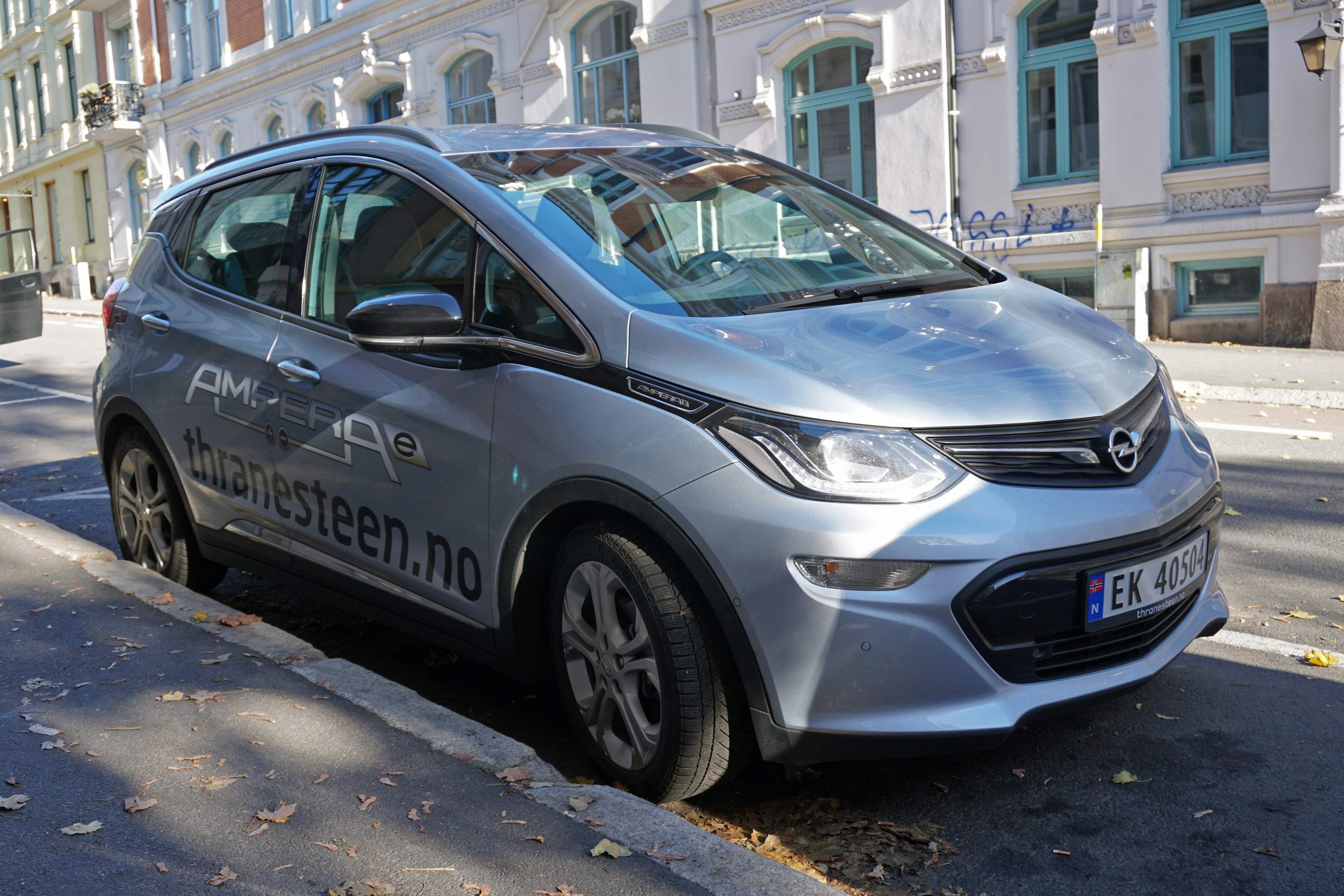 Opel Ampera-e in Oslo, Norway.